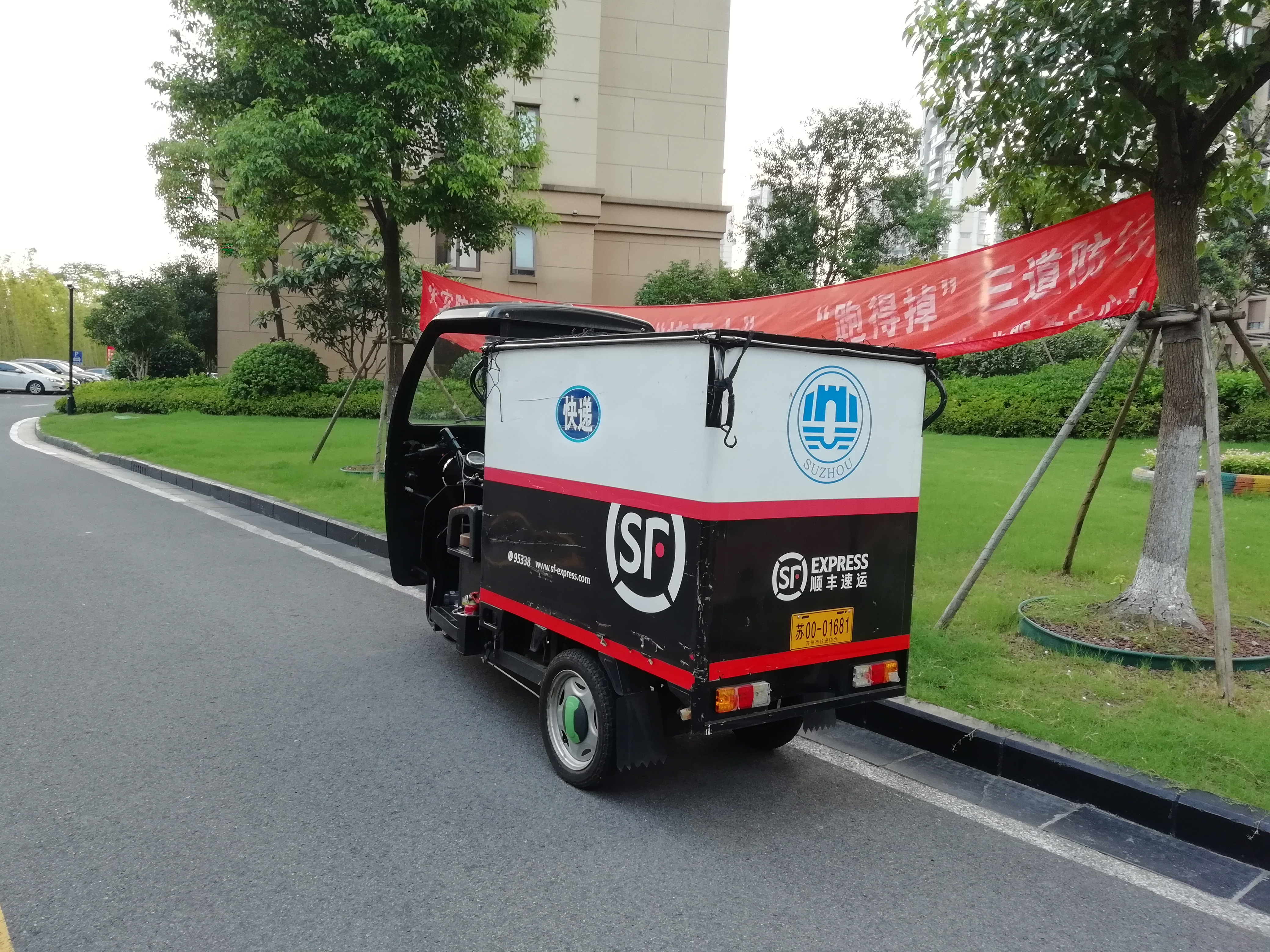 A SF Express delivery vehicle, with City Emblem of Suzhou in Suzhou, Jiangsu, China. 中文（中国大陆）: 一辆顺丰速运运送快递的三轮车，印有苏州市市徽。